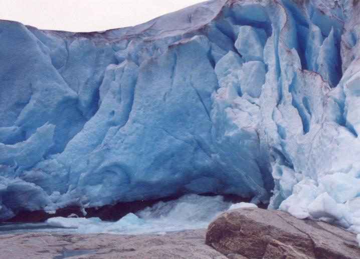 Jostedalsbreen glacier, Norway